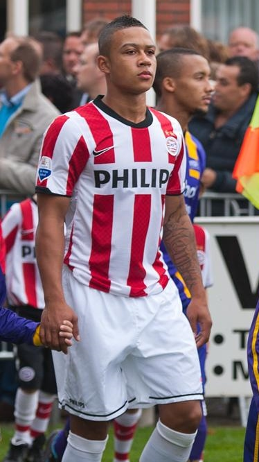 Memphis Depay entering the pitch for the KNVB-Cup match VVSB-PSV, 21 September 2011.